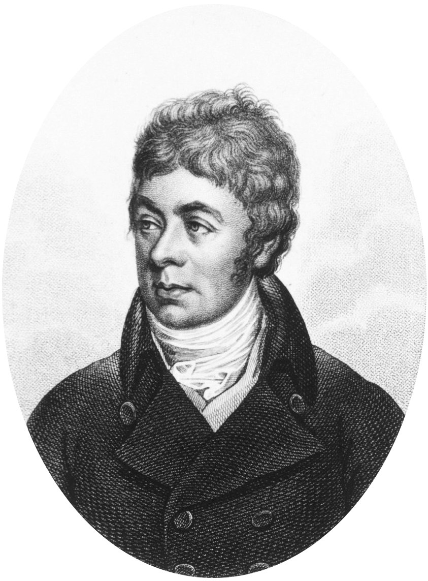 From here